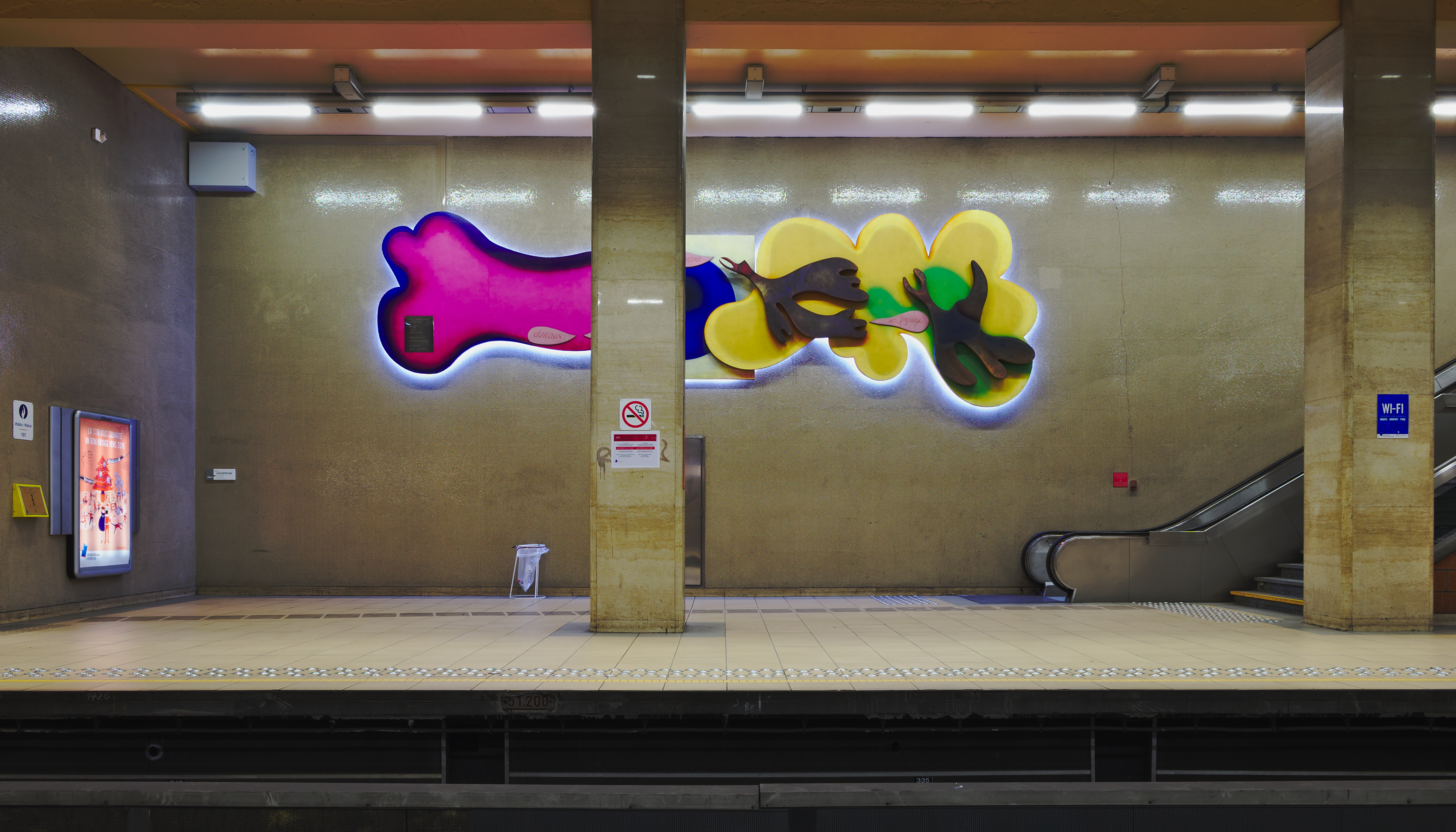 Joséphine-Charlotte metro station platform, facing "Les oiseaux émerveillés" by Serge Vandercam in (Woluwe-Saint-Lambert, Belgium)